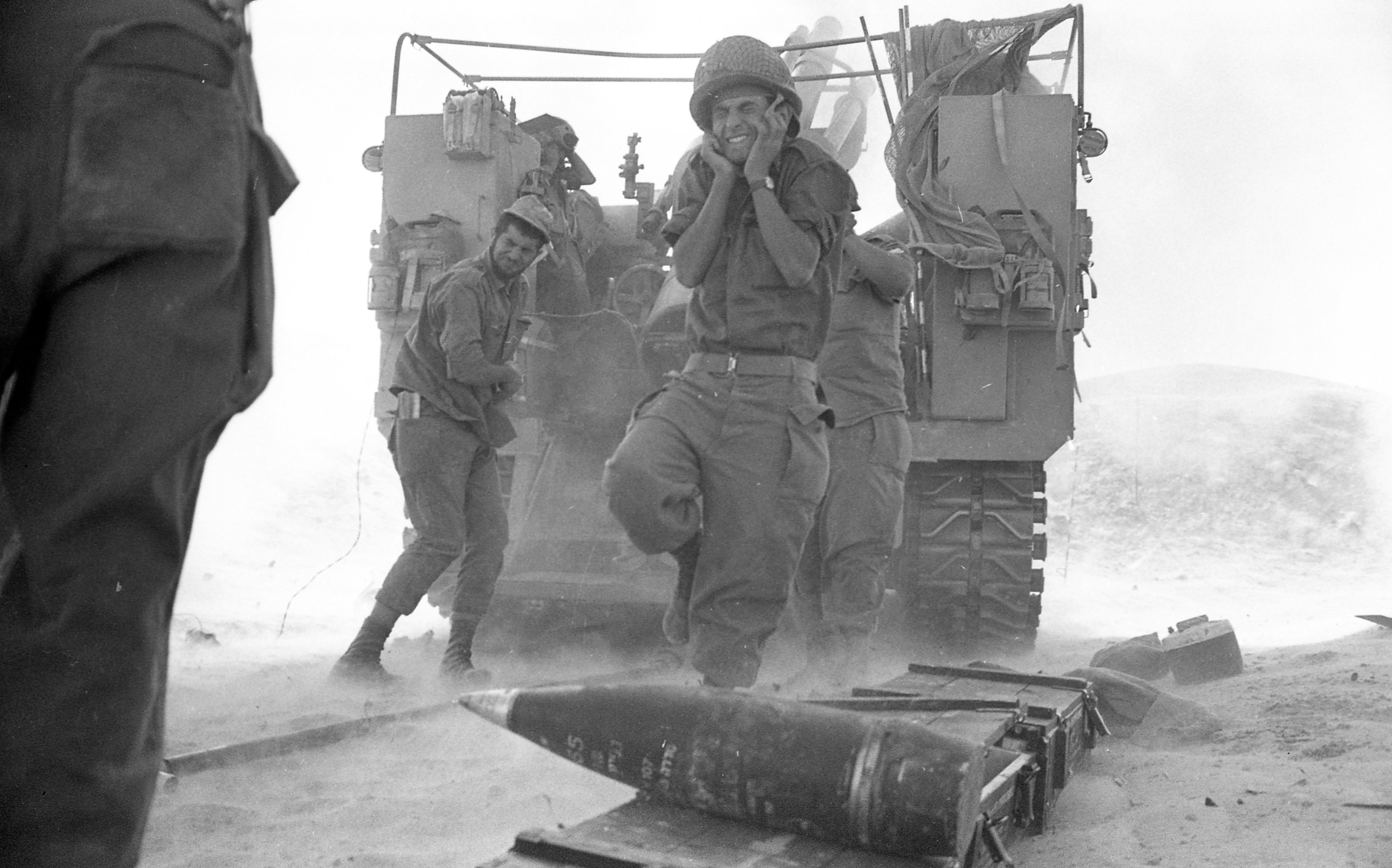 IDF in the Suez Canal.